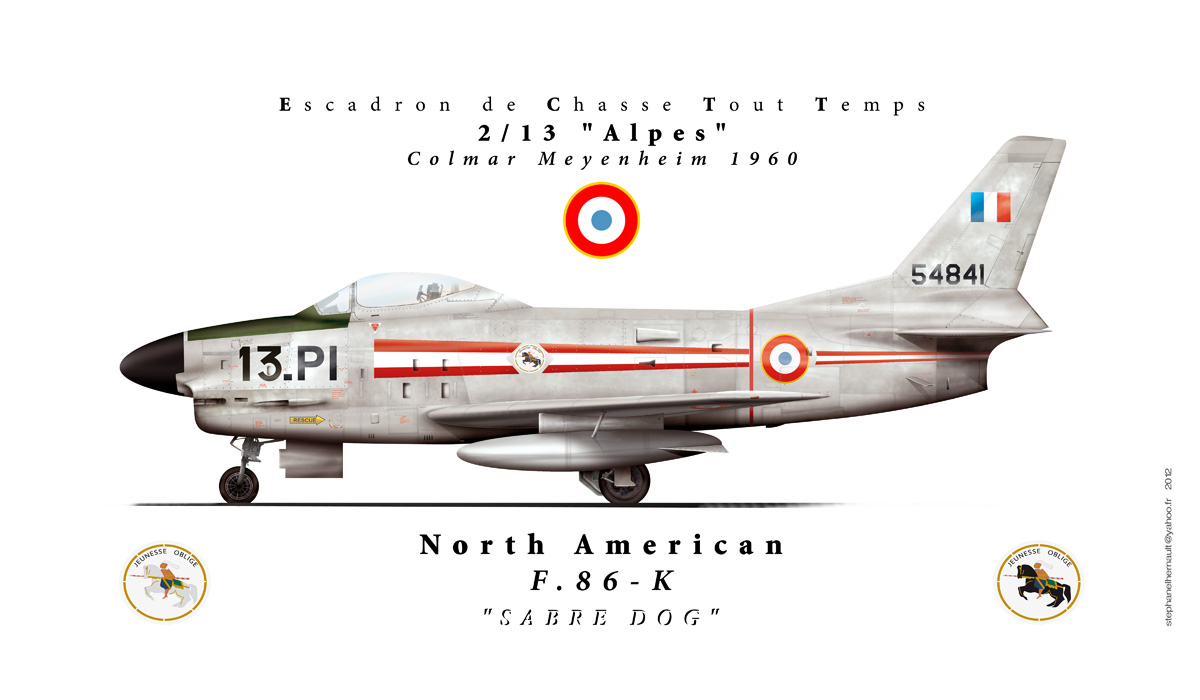 North American F86K French Air Force 2/13 alpes squadron